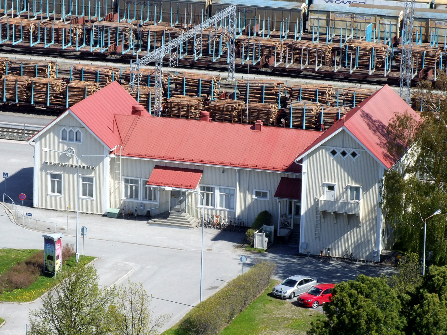 Kemi railway station, Kemi, Finland.